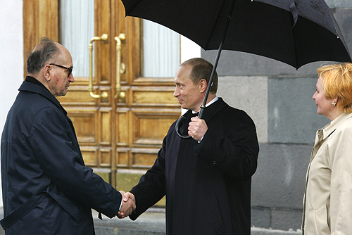 THE KREMLIN, MOSCOW. Meeting guests arriving for the celebrations of the sixtieth anniversary of victory in World War II. With former leader of Poland Wojciech Jaruzelski (mistakenly denoted as former King of Romania Michael I).